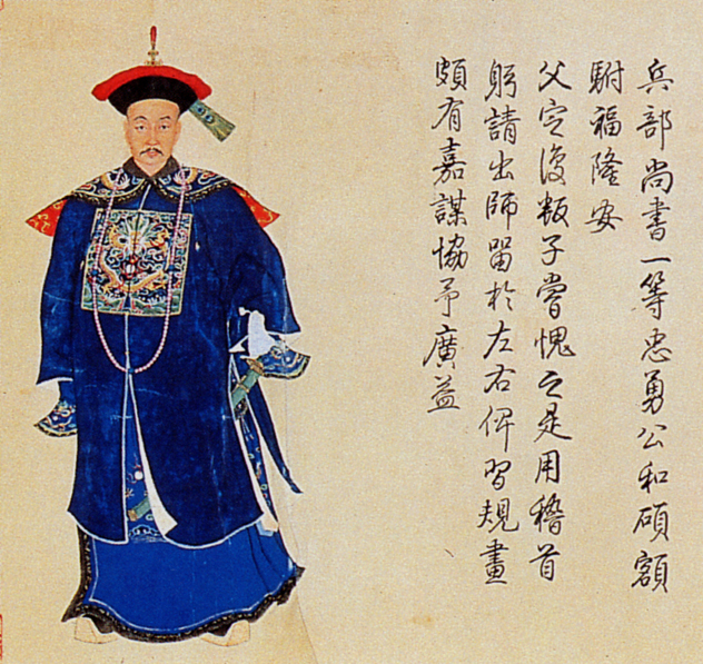 Fulong'an (福隆安 fu long an), an officer of the Qing Army during Qianlong's era.